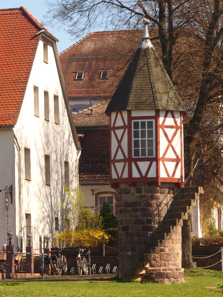 Stream gauge in Bad Karshafen, from 1901.